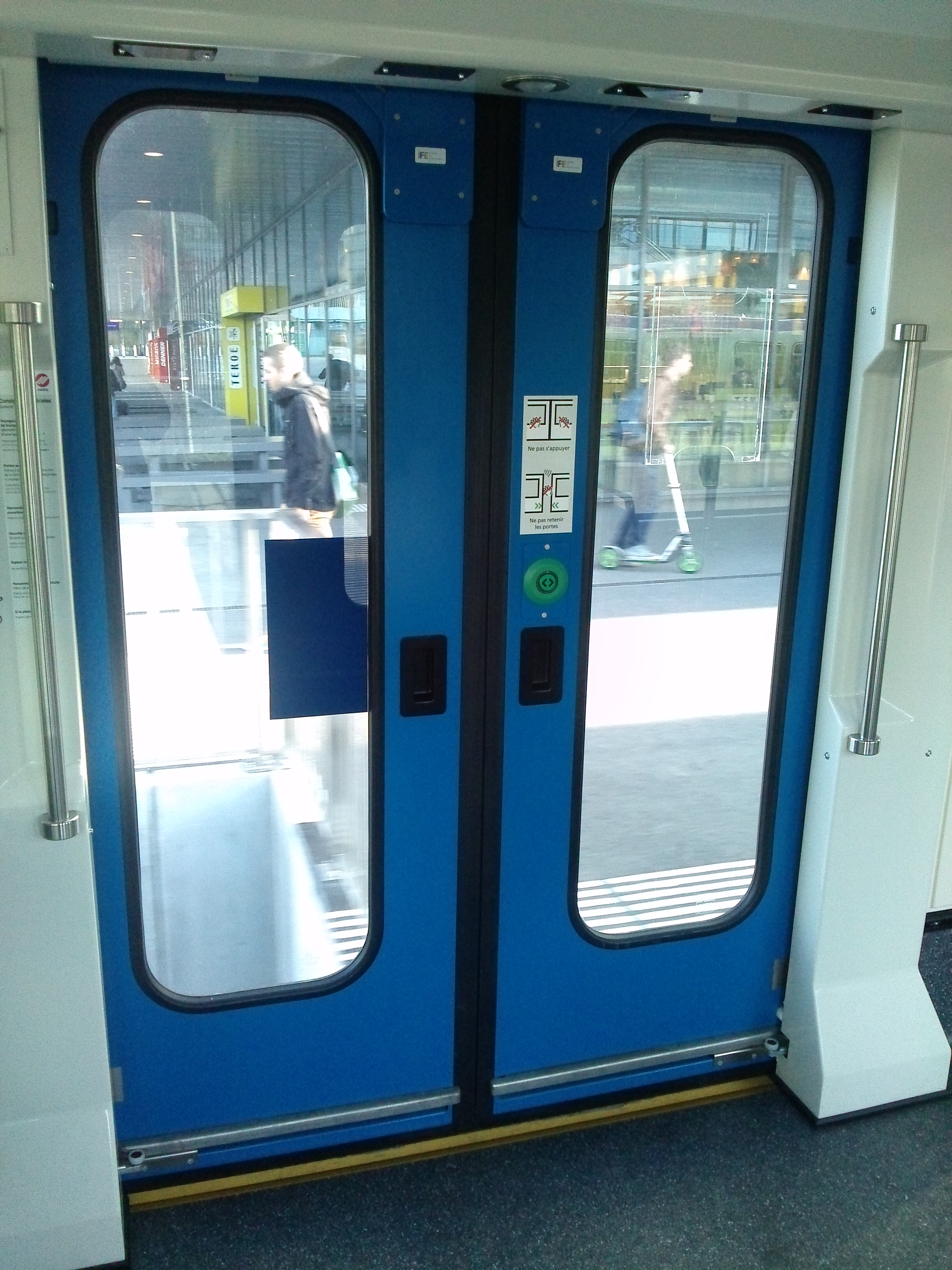 Automatic door of the multiple unit Be 4/6 558 218-1 from TL.